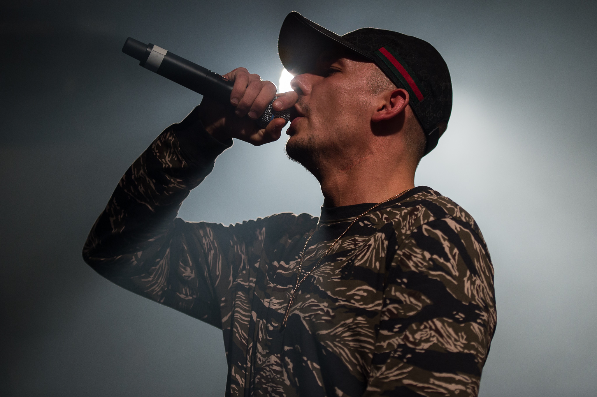 The German rapper Capital Bra (Vladislav Balovatsky) during a concert in the Hirsch in Nuremburg.